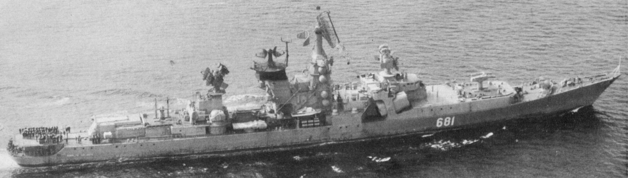 Soviet Kresta II-class cruiser (Large Anti-Submarine Ship) Admiral Nakhimov, 1979